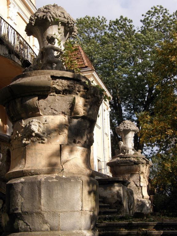 Back door stairs leading to the park in Obroshyno, Lviv Region, Ukraine